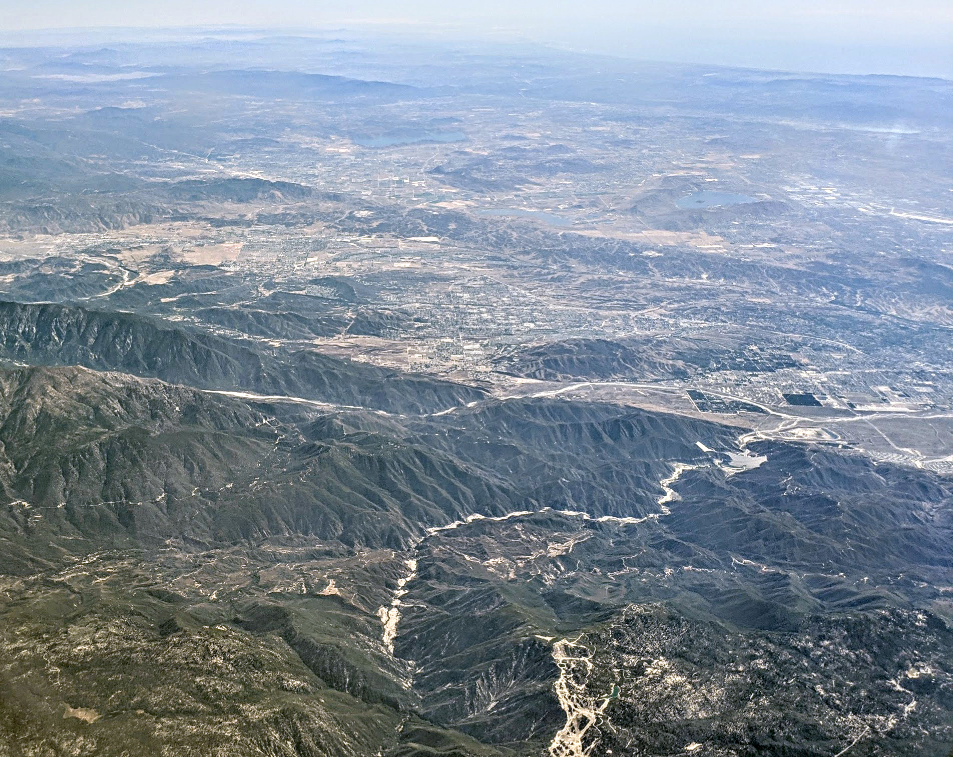 Santa Ana River (lower center), Seven Oaks Dam (on the Santa Ana River), Mill Creek (behind the Santa Ana and converging with it), and Slide Peak (foreground)